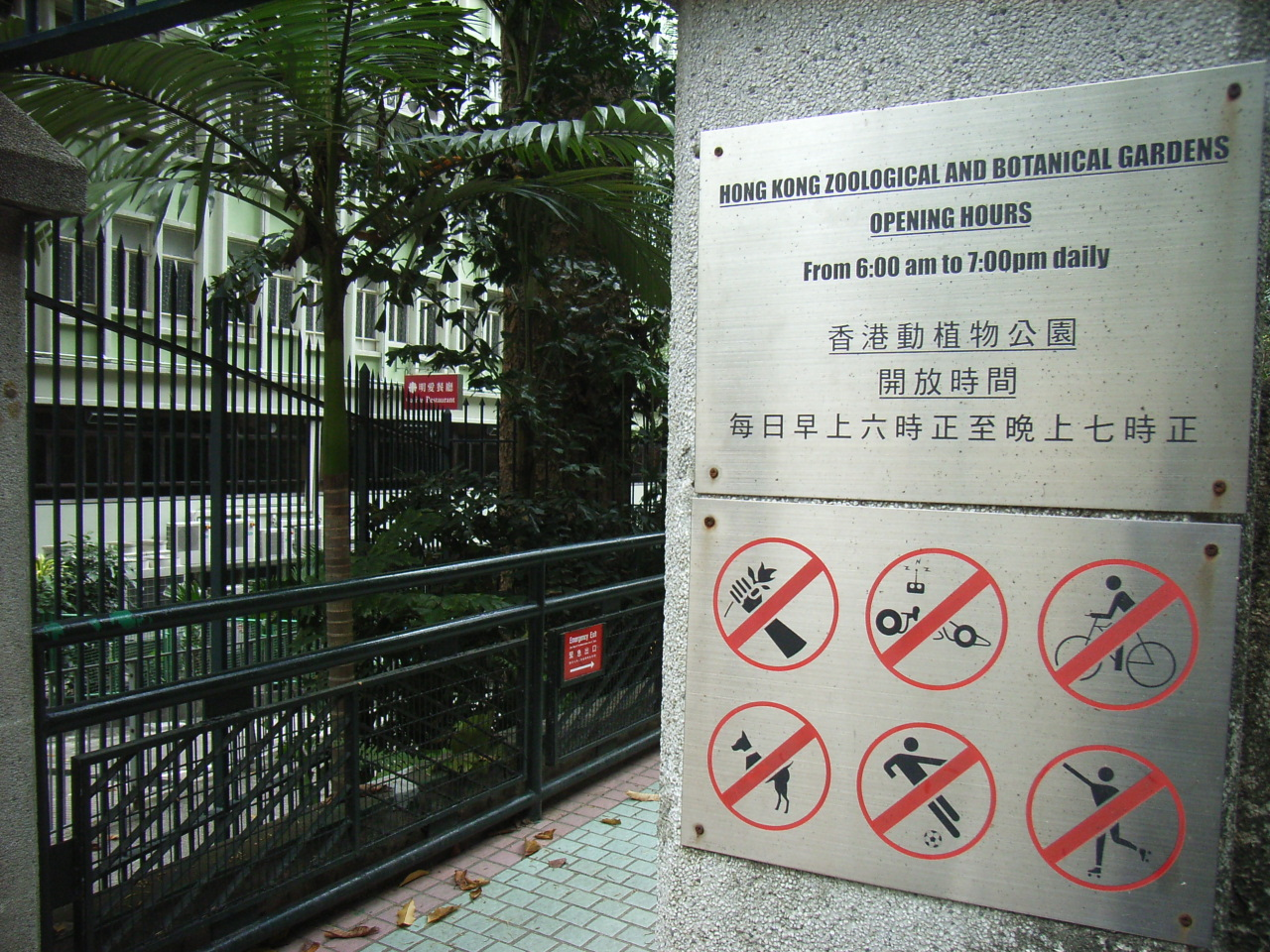 香港動植物公園 Hong Kong Zoological and Botanical Gardens NBG626